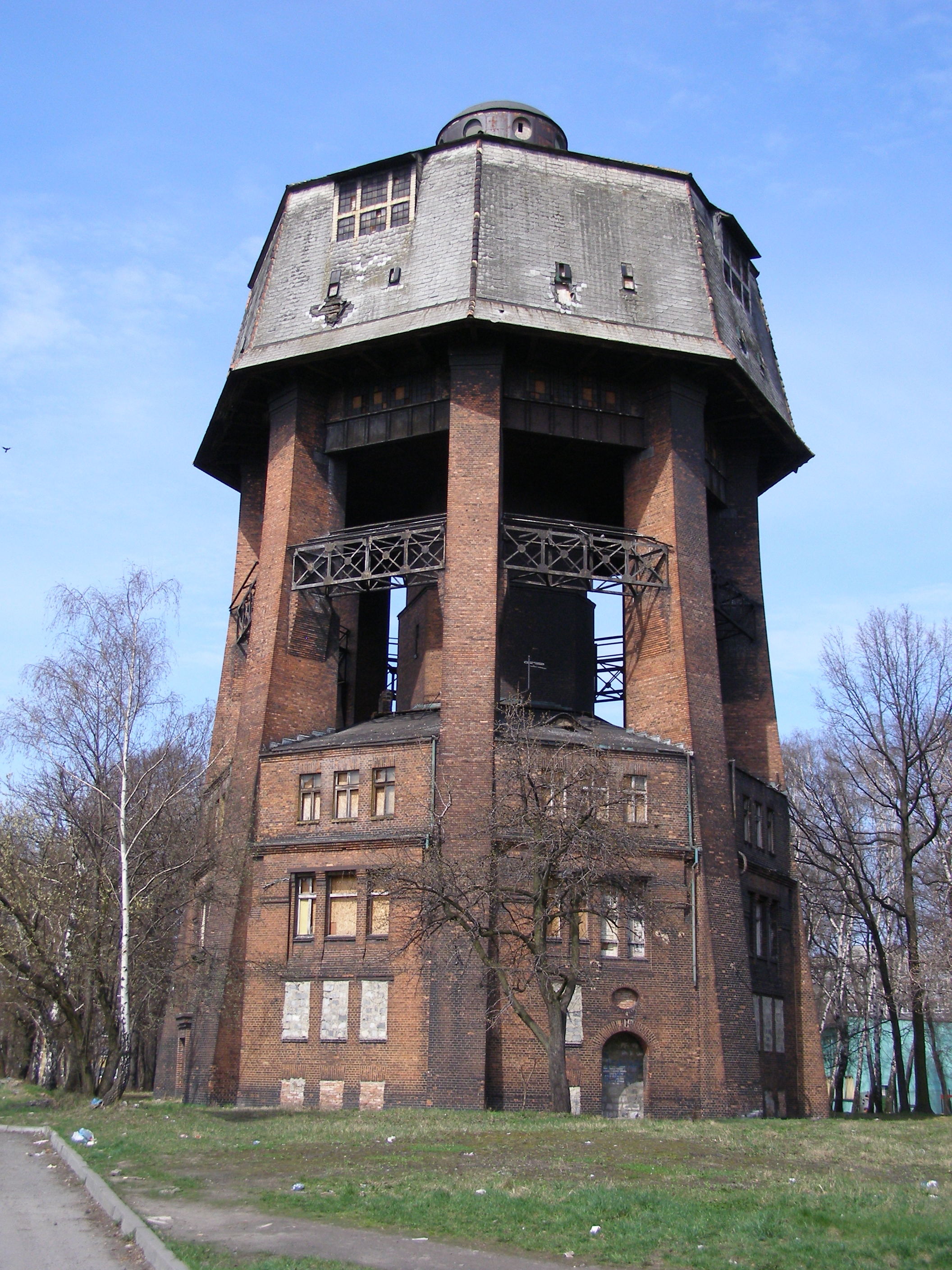 Zabrze - water tower in Zamoyskiego str.